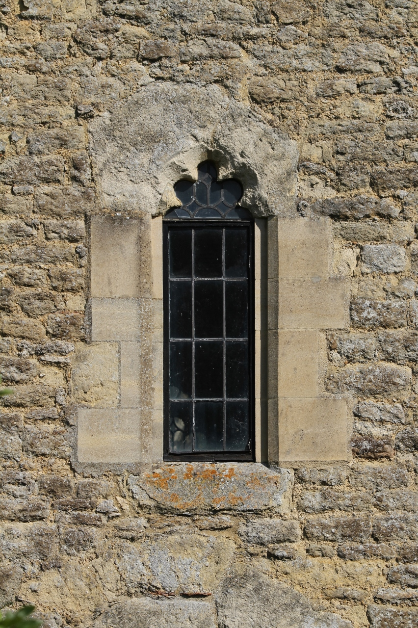 of Bartlemas chapel, Oxford